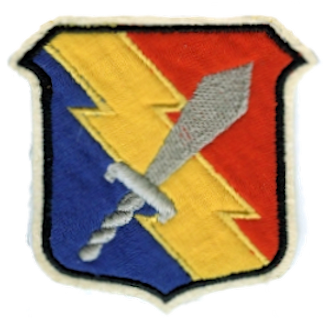 Emblem of the USAAF 21st Fighter Group (World War II)